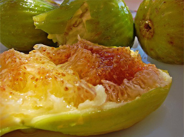 Fig of Cilento, province of Salerno - Italy.